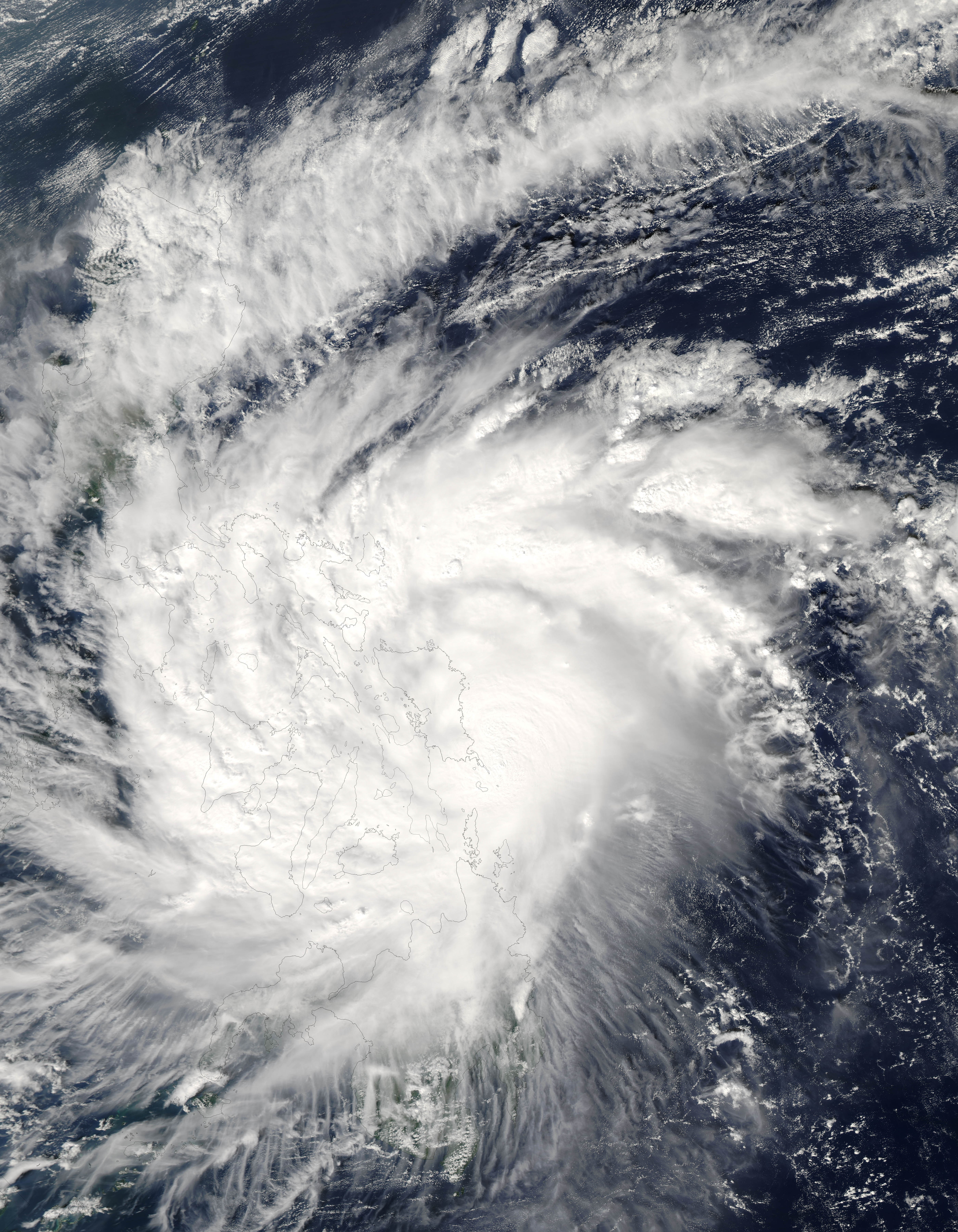 Typhoon Utor struck the Philippines on December 9, 2006. Coming just a week after Super Typhoon Durian passed through the island chain on a parallel path just to the north, Utor brought heavy rain and strong winds to sodden ground and swollen rivers. Typhoons Xangsane, Cimaron, and Chebi earlier in the year had also followed very similar tracks to Utor. The National Diaster Coordinating Council reported exavuations over over 60,000 people from provinces on or near the storm’s track, particularly in areas where rain from Durian had caused mudslides. As of December 10, the Associated Press was reporting that no deaths in the mudslide areas had been recorded, though Typhoon Utor was responsible for some loss of life elsewhere as tree fell on houses. Like Durian before it, Utor was expected to cross the South China Sea and come ashore in mainland Asia along the Vietnam coast. This photo-like image was acquired by the Moderate Resolution Imaging Spectroradiometer (MODIS) on the Aqua satellite on December 9, 2006, at 12:55 p.m. local time (4:55 UTC), just hours before the storm’s center crossed the shoreline. The storm system did not have the well-defined shape of a powerful typhoon, with no clear eye, though powerful thunderstorm clouds can be discerned in the heart of the storm, and the spiral arms also show towering thunderheads reaching above the clouds around them, and casting shadows. Sustained winds were around 160 kilometers per hour (100 miles per hour), according to the University of Hawaii’s Tropical Storm Information Center. The high-resolution image provided above is at MODIS’ full spatial resolution (level of detail) of 250 meters per pixel. The MODIS Rapid Response System provides this image at additional resolutions.